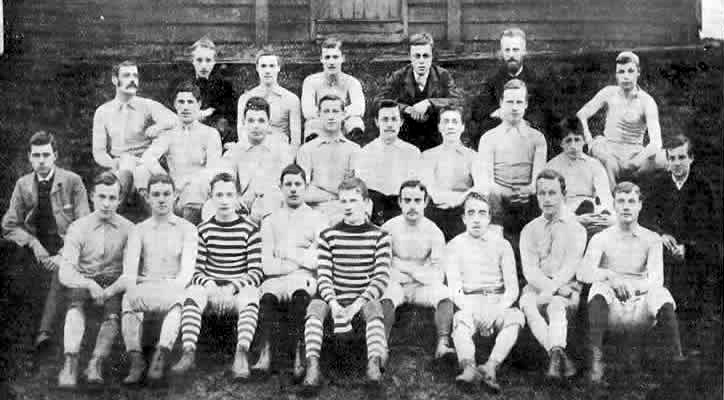 1884-1885 Spurs team. Top row - R. Amos, L. Brown, T Wood, T. W, Bumberry, J. Anderson. John Ripsher (President), Sam (Hamilton D.) Casey Middle row - John H. Thompson, W. C. Tyrell. F. Lovis, Jack C. Jull (captain 1st team), H Goshawk, W. Hillyer, Stuart Leaman (captain 2nd team), F. Bayne, J. Randall Bottom row - J. G Randall, Robert Buckle, G. F. Burt, G. Bush, P. Moss, William Mason, William Harston, F. Cottrell, Hedley Bull